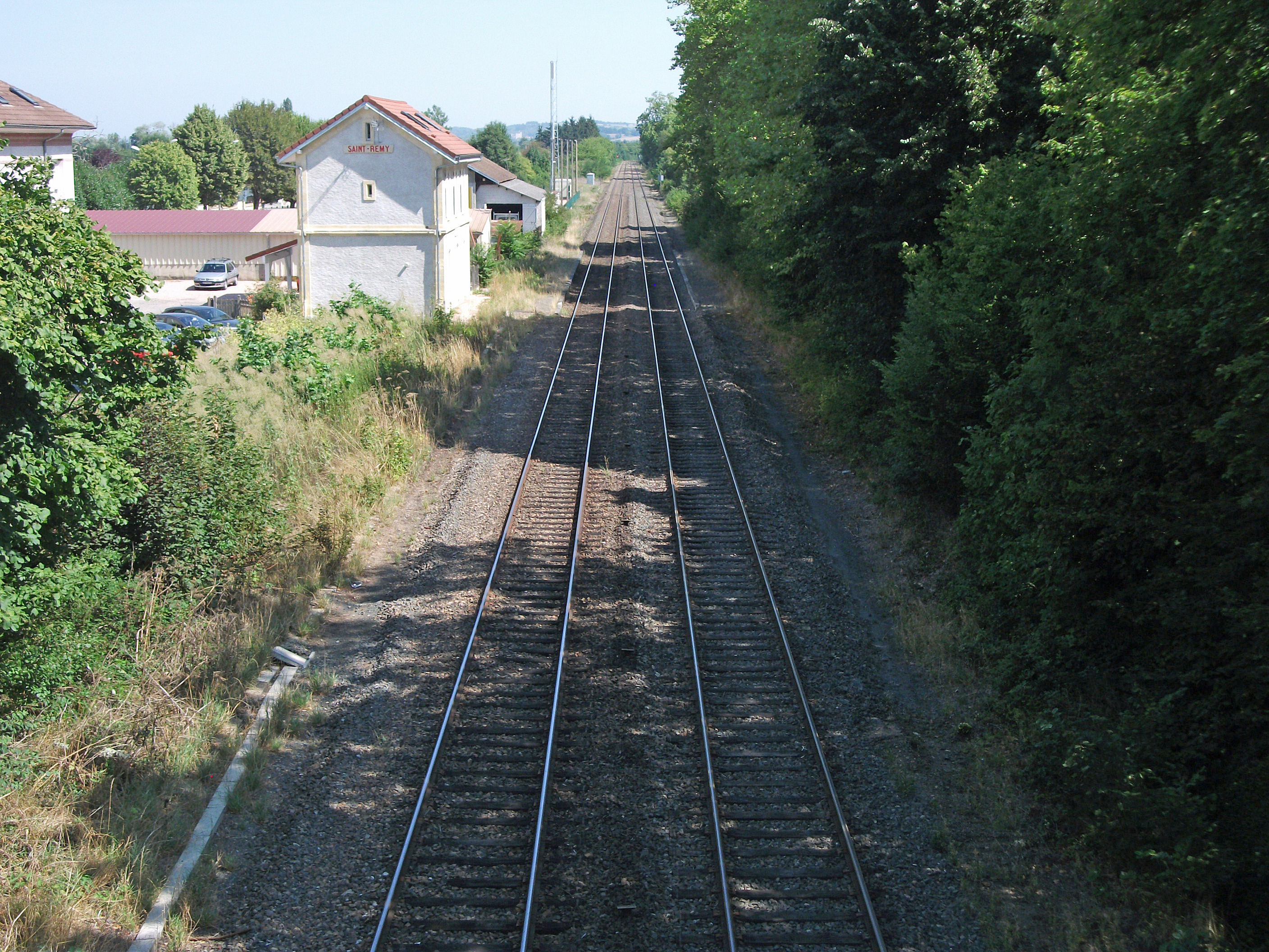 Saint-Germain-des-Fossés–Nîmes railway in Saint-Rémy-en-Rollat, towards Saint-Germain-des-Fossés + old station [8622]